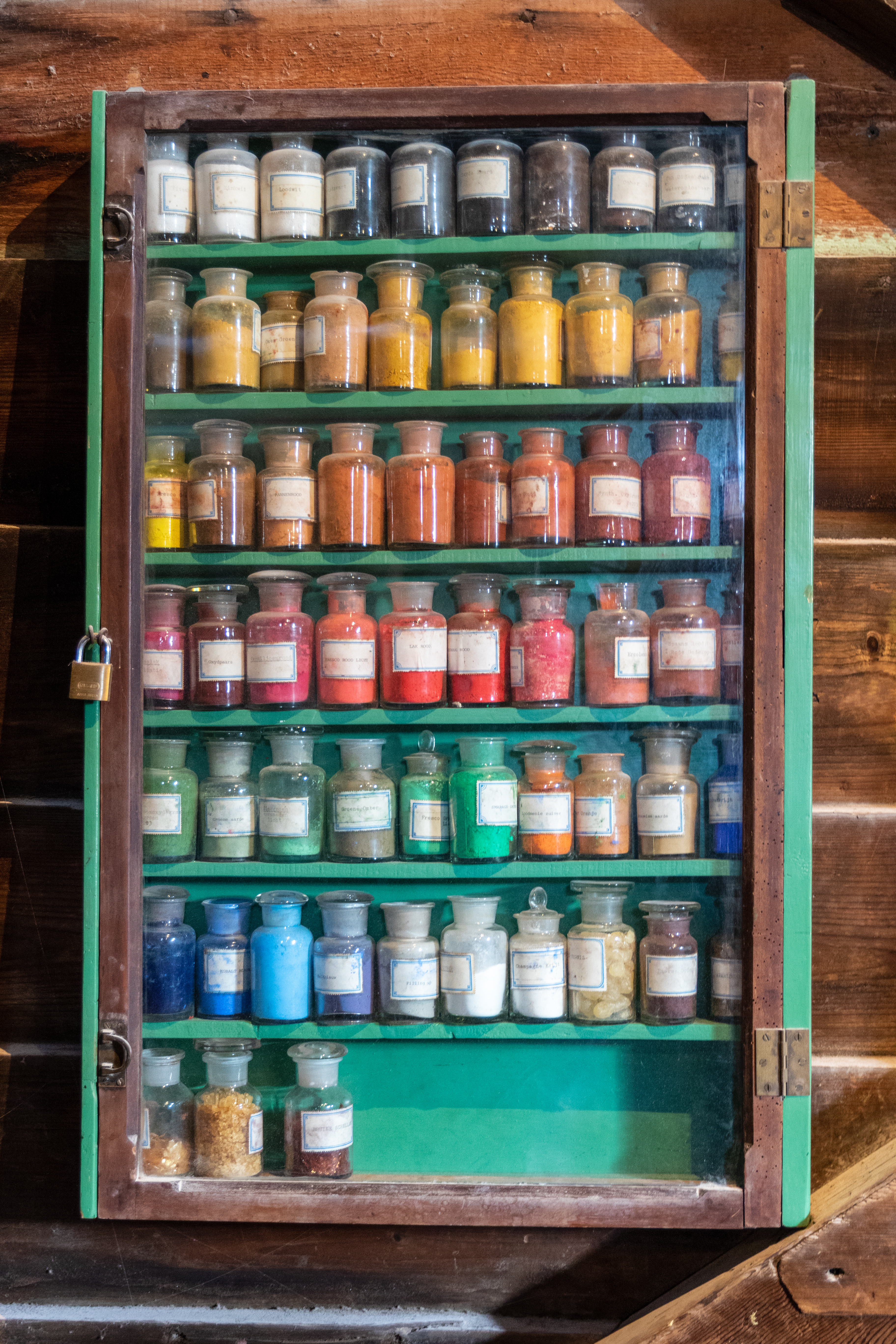 Some of the dyes made at De Kat. Zaandam, Netherlands, November 2019